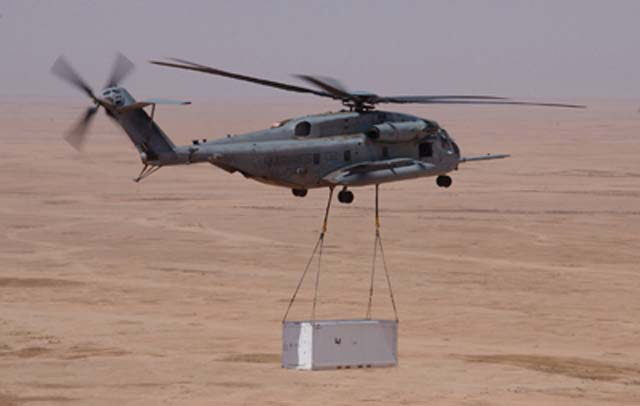 CH-53E helihoisting in Iraq 2004